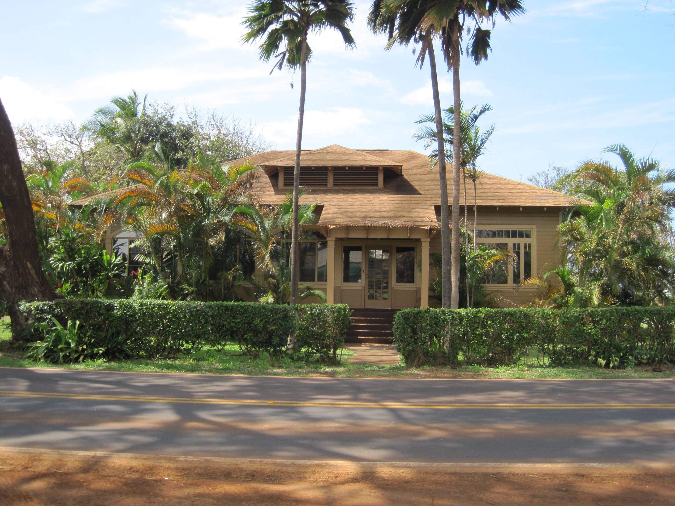 Alexander & Baldwin Sugar Museum, Puunene, Hawaii, former plantation manager's house at Hawaiian Commercial & Sugar Company's Puunene Mill.